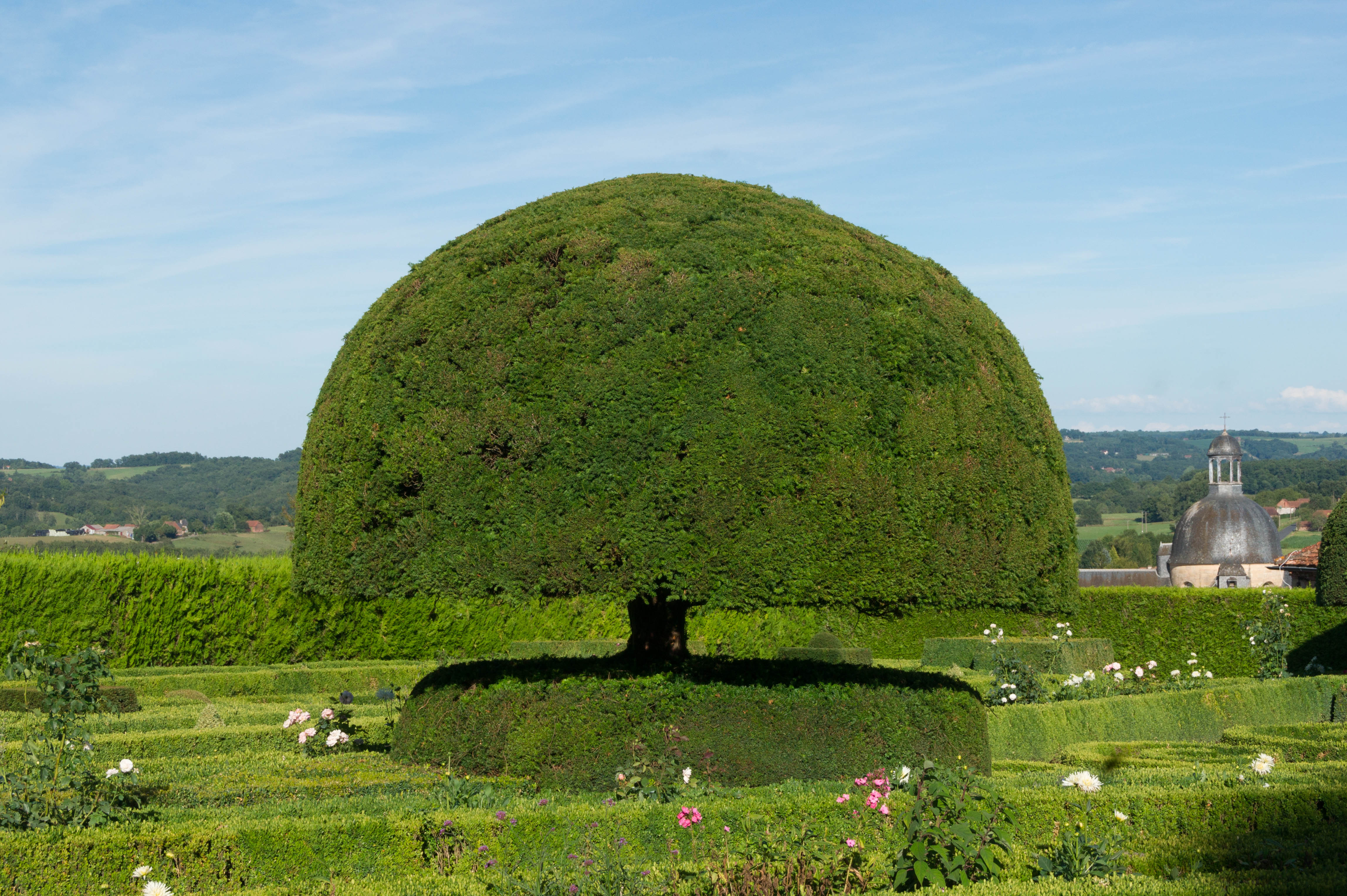 A yew tree Taxus Baccata, topiary in the gardens of Château de Hautefort. In background, a part of the Hospital. Dordogne, France.